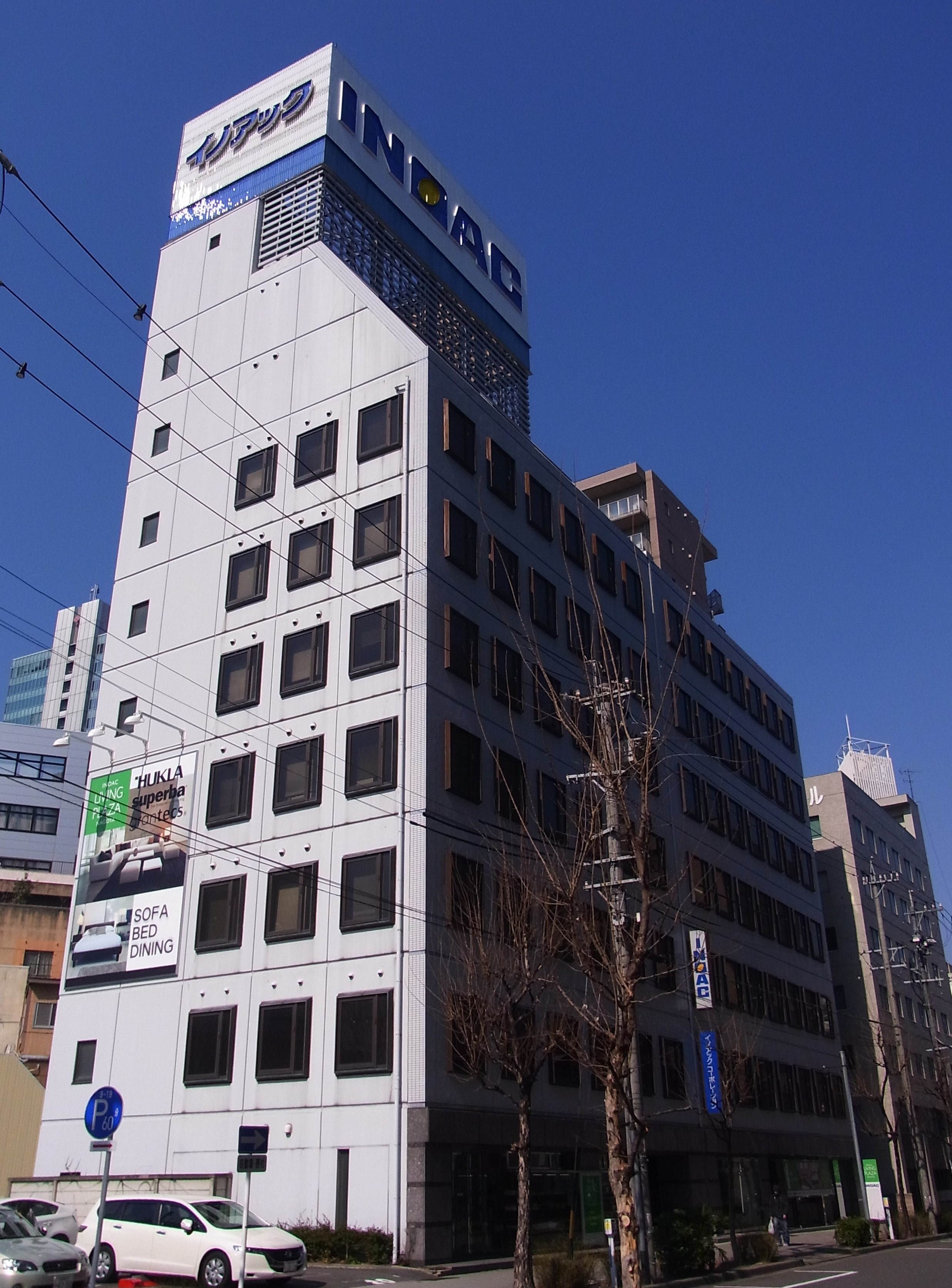 Inoac Corporation headquarters building in Nakamura-ku Ward, Nagoya City.